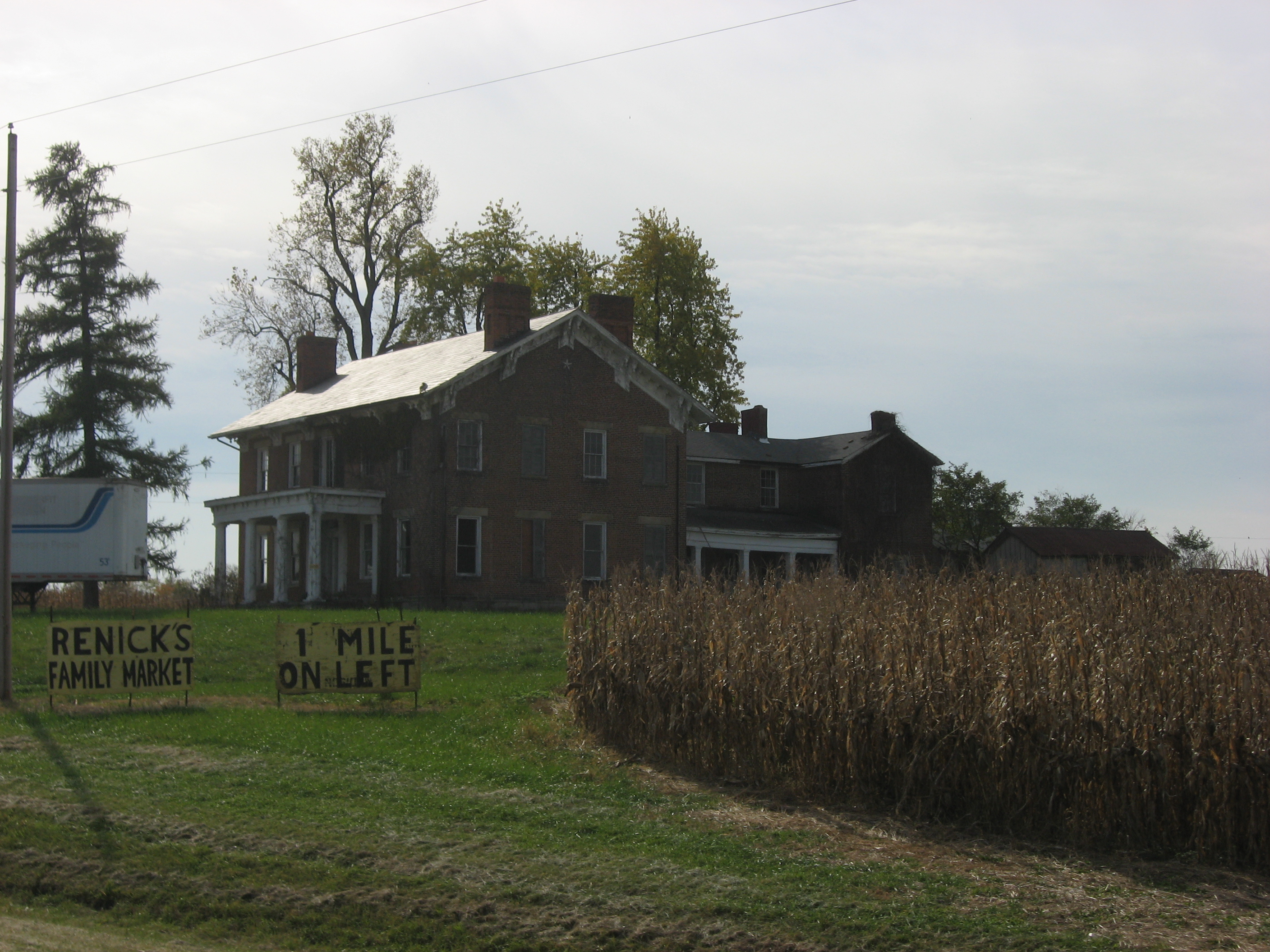 Farmhouse at the Renick Farm, located along U.S. Route 30 north of South Bloomfield in Harrison Township, Pickaway County, Ohio, United States. Built in 1830, the farm is listed on the National Register of Historic Places.